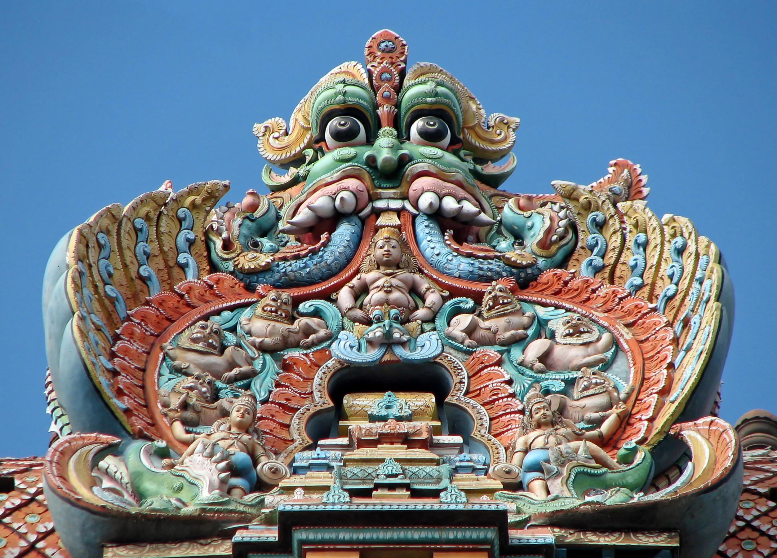 Top of a gopuram, Meenakshi temple, Madurai, India